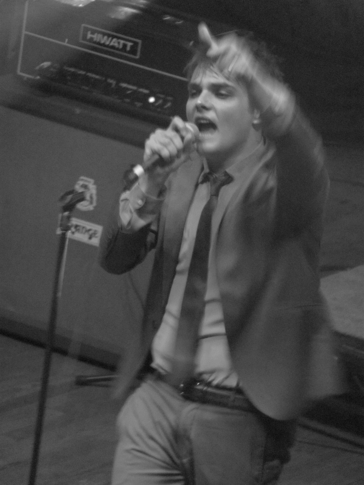 Gerard Way performing at the Webster Hall in New York, United States, on October 23rd, 2014.